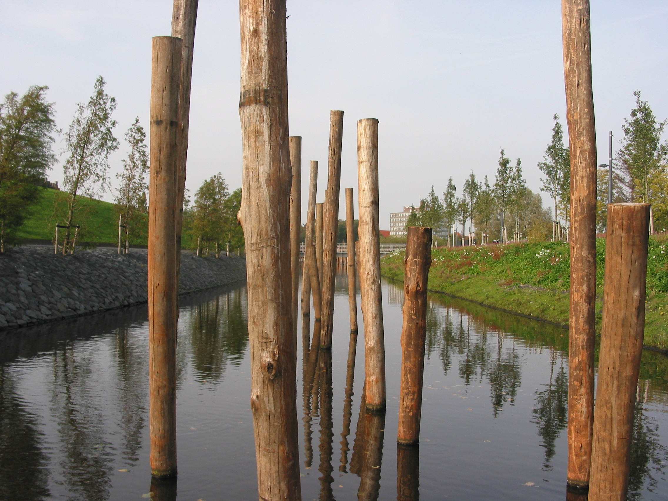 Park Schinkeleilanden, Amsterdam.